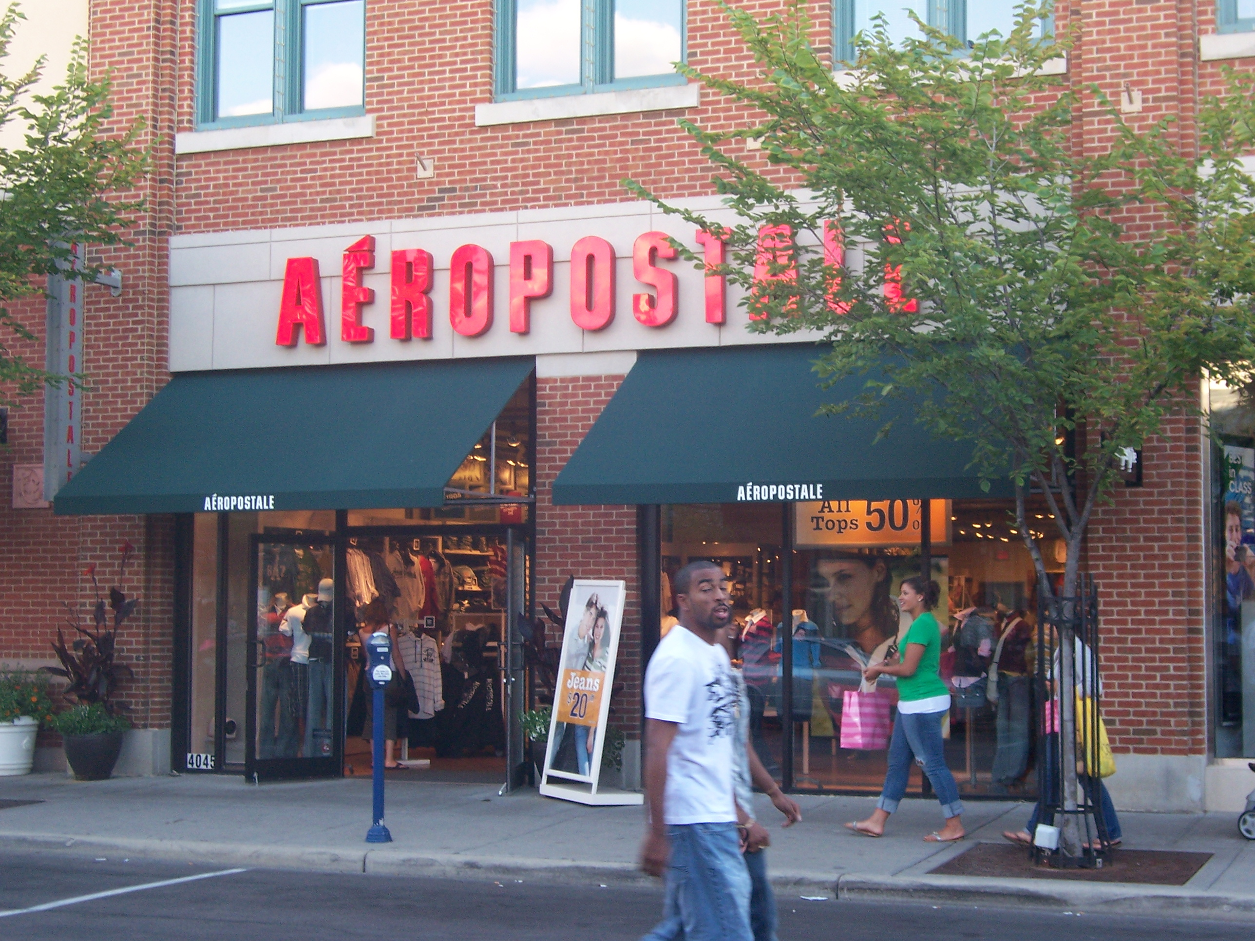 Aeropostale at Easton Town Center